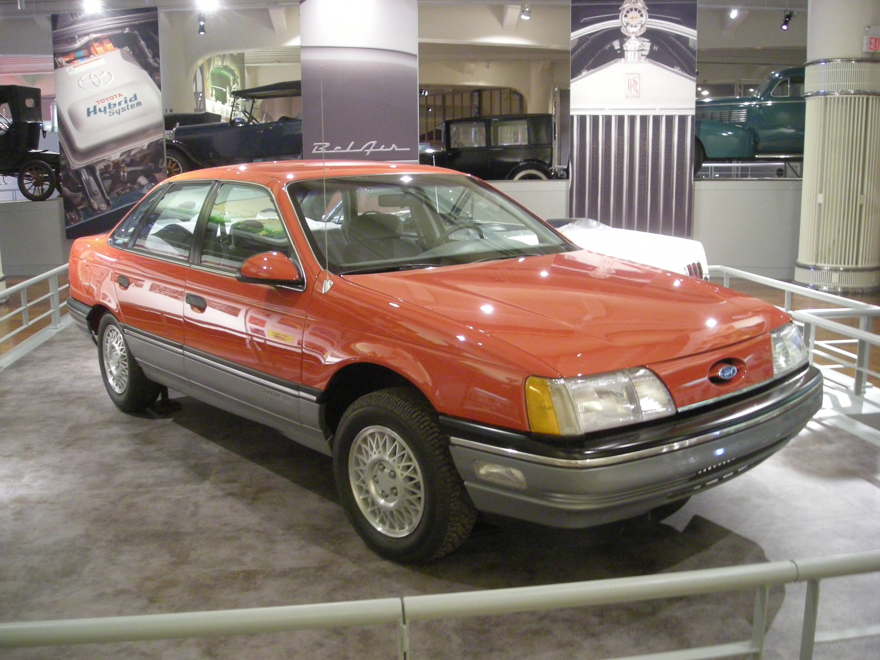 A 1986 Ford Taurus on display at the Henry Ford Museum in Dearborn, Michigan (United States).